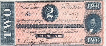 2 Dollars Confederate States of America banknote dated February 17, 1864.